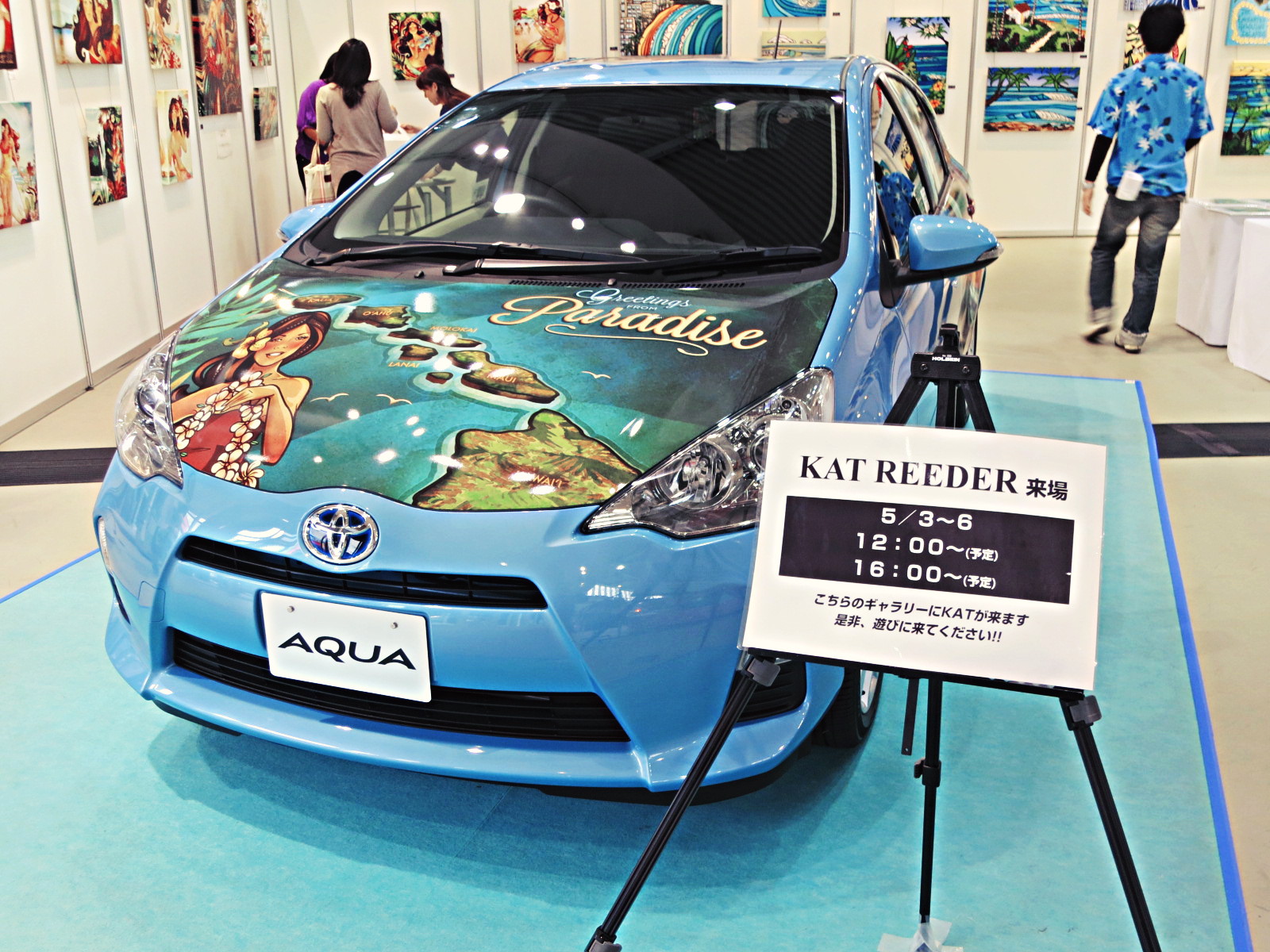 Toyota with Kat Reeder artwork, Tokyo 2012